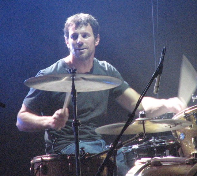 Jon Coghill performing with Powderfinger at the Across the Great Divide Tour in September 2007. Image is cropped from the original.